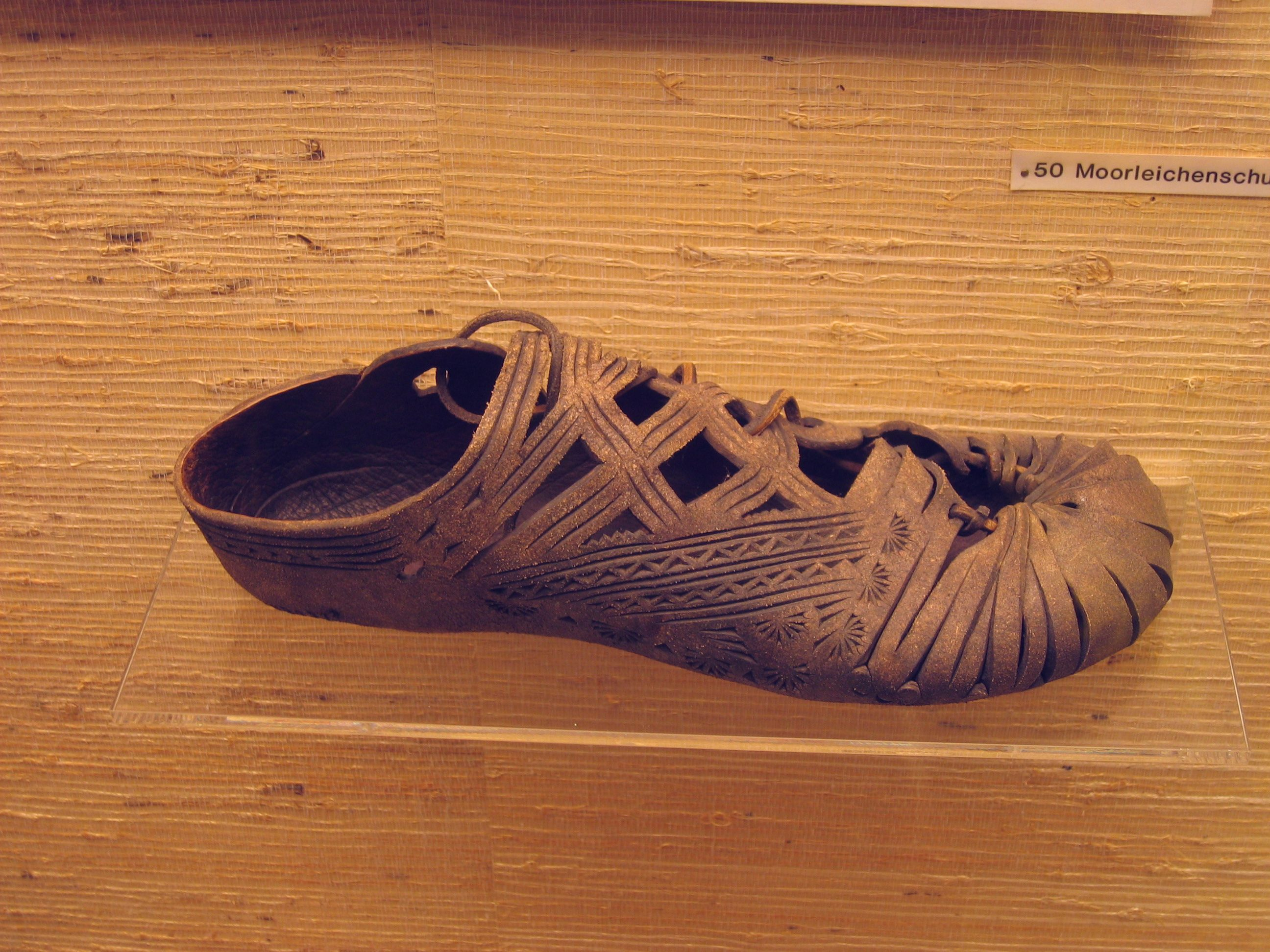 Reconstruction of an germanic shoe of the 2nd Century, find from a bog near Hannover, Germany